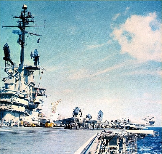 A McDonnell F3H-2 Demon fighter of U.S. Navy fighter squadron VF-193 Ghostriders on the catapult of the aircraft carrier USS Bon Homme Richard (CVA-31) in 1961. In the background are a Vought F8U-1 Crusader of VF-191 Satan's Kittens (left) Douglas A4D-2N Skyhawk attack planes of attack squadron VA-195 Dambusters (right). VF-193 was assigned to Carrier Air Group 19 (CVG-19) for a deployment to the Western Pacific from 26 April to 13 December 1961.